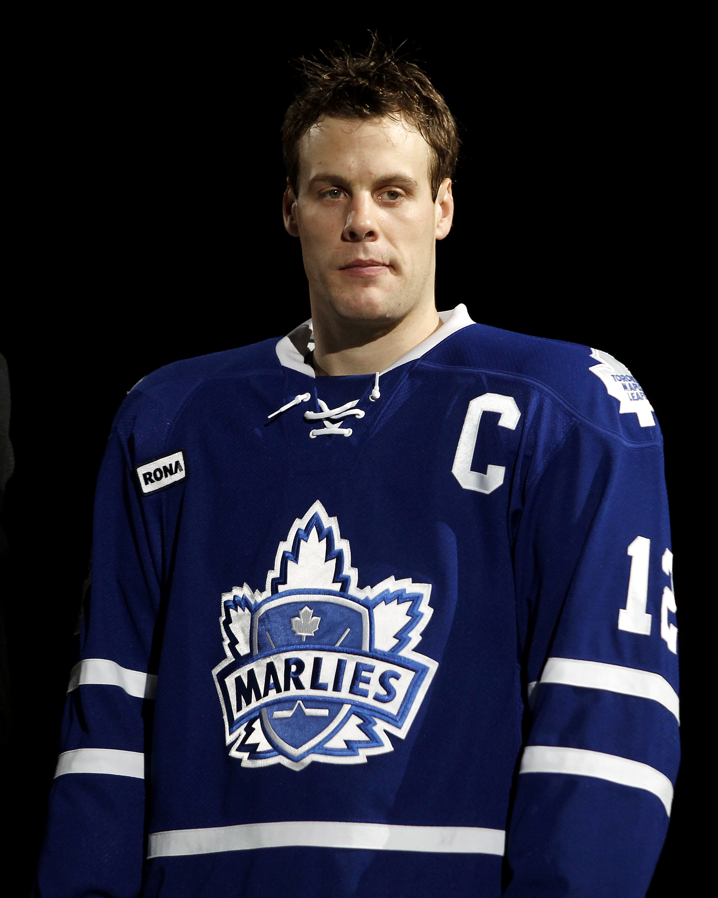 Hamilton2 American Hockey League (AHL). 2013 All-Star Skills Competition. Taken on January 27, 2013.